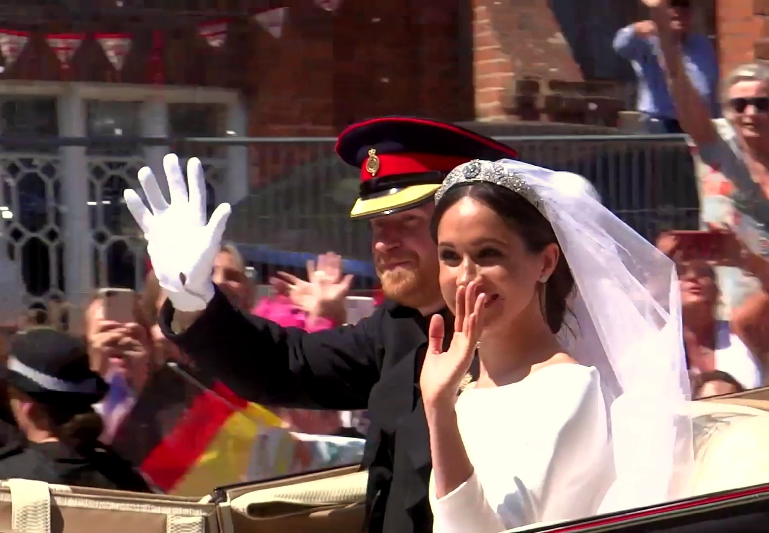 Prince Harry and his now wife Meghan have taken part in an open-top carriage procession through the streets of the town of Windsor. The couple earlier married at St George’s Chapel which was watched by millions of people all over the world.